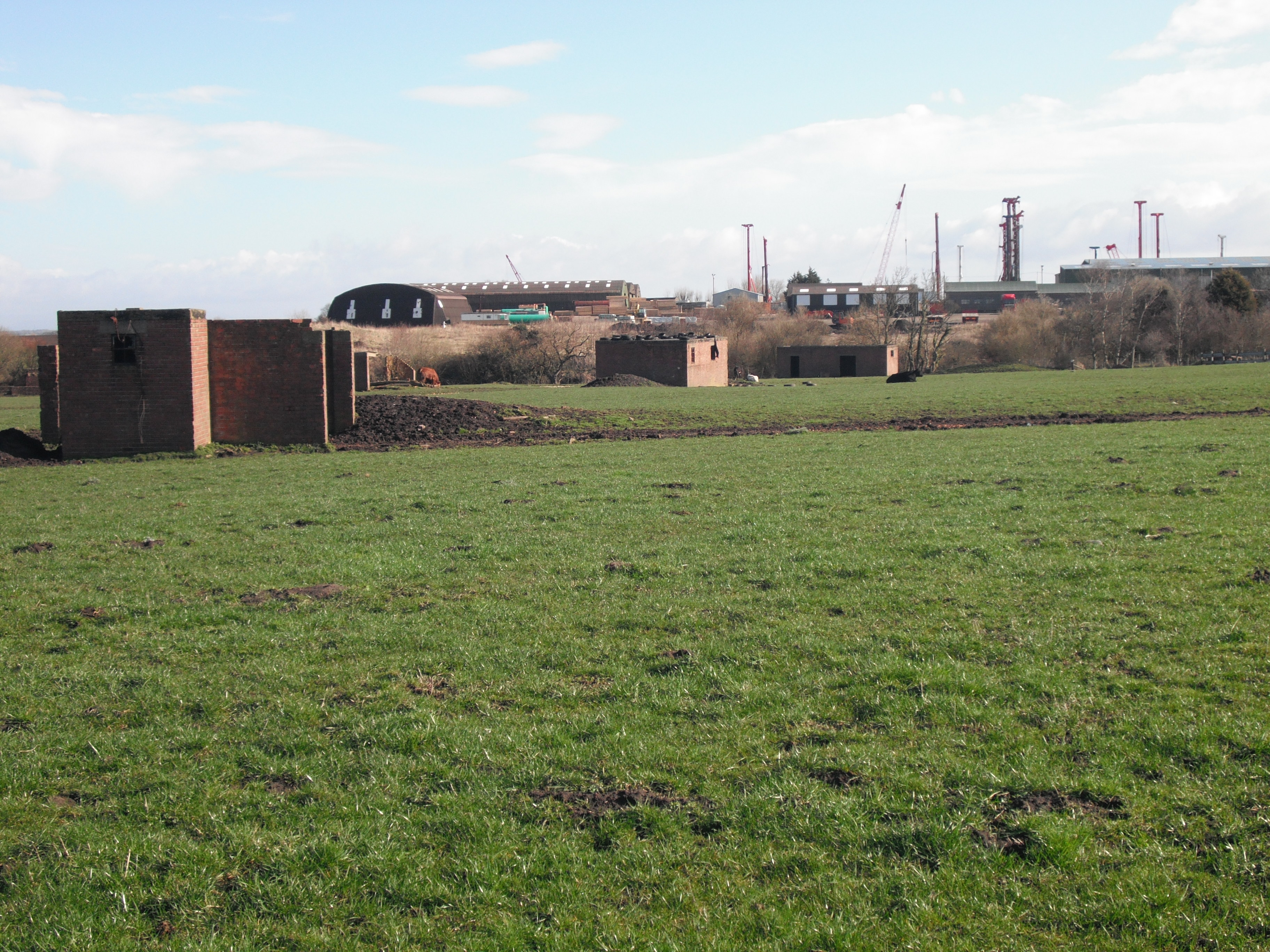 Wartime relics, Burscough Surviving buildings from the former Royal Naval Air Station Burscough (HMS Ringtail)dot the landscape around here. Much of the former site has been colonised by the Burscough Industrial Estate.